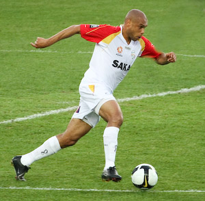 Cristiano playing against Sydney FC at the Sydney Football Stadium in the A-League round 5.